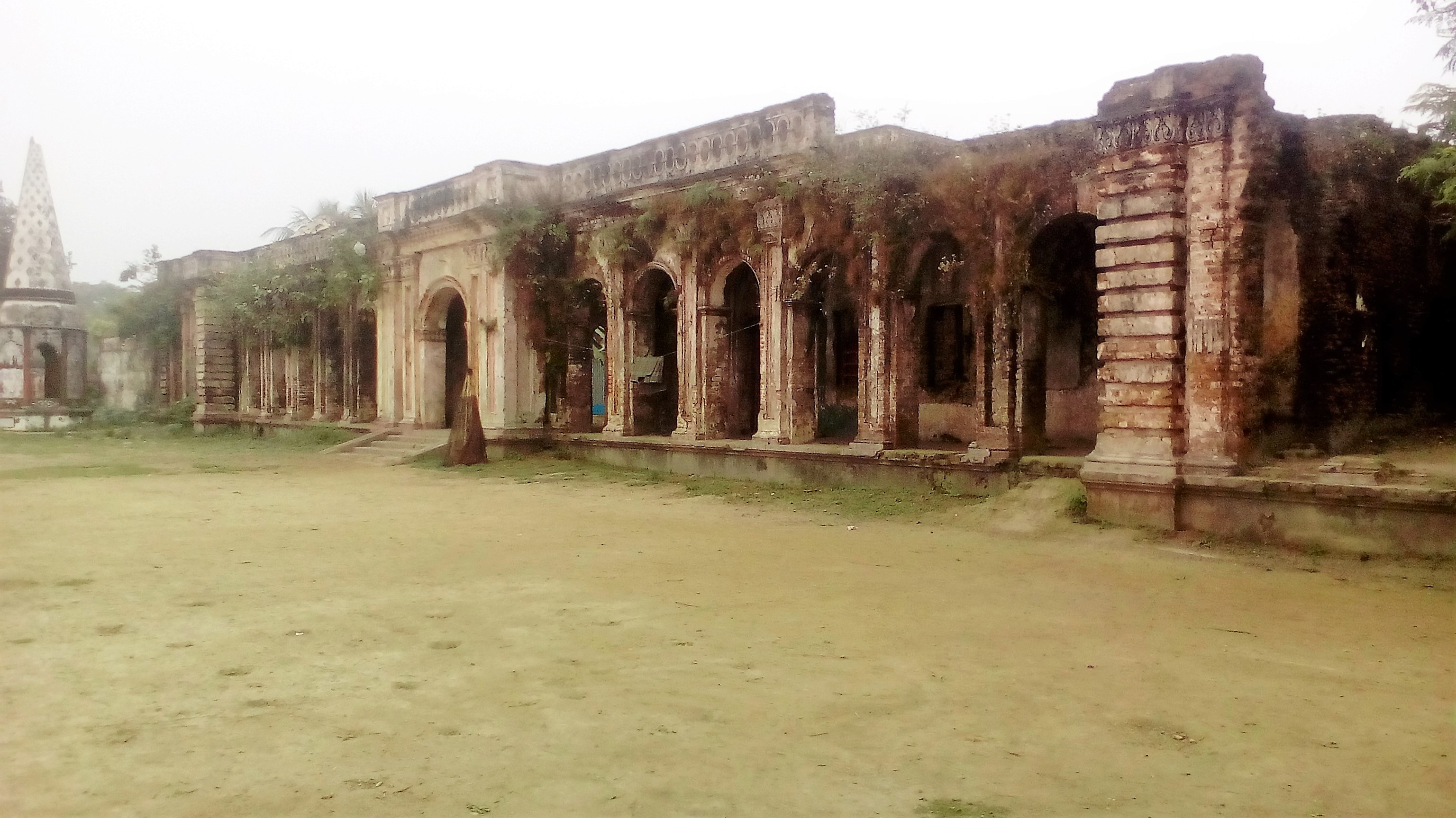 Haripur Barabari stands at the east of the Titas.